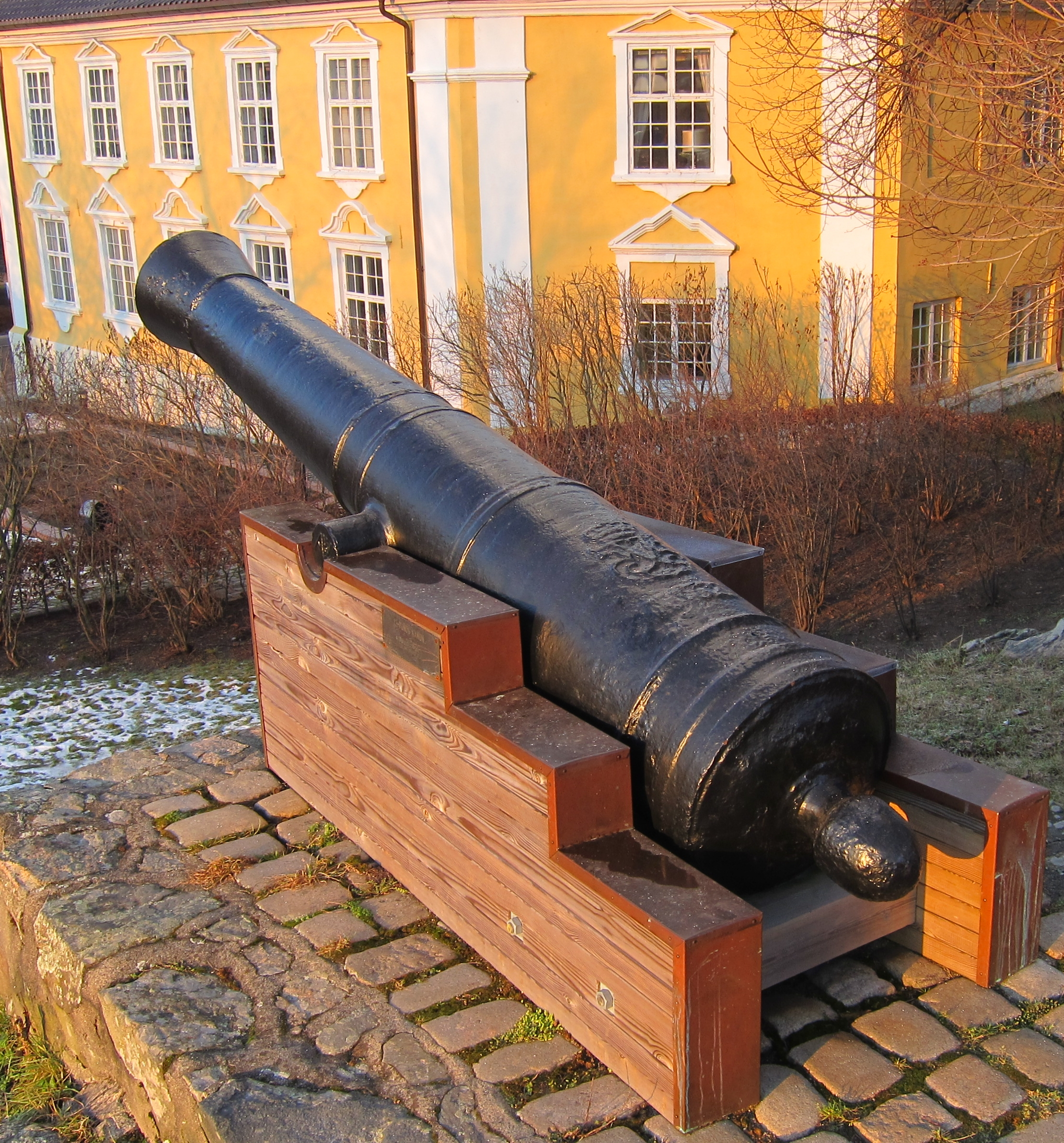 The cannon was manufactured at Moss Ironworks in 1762 and found and recovered in Vardø in 1970, it is now on display beside the main building of the old iron works in Moss.